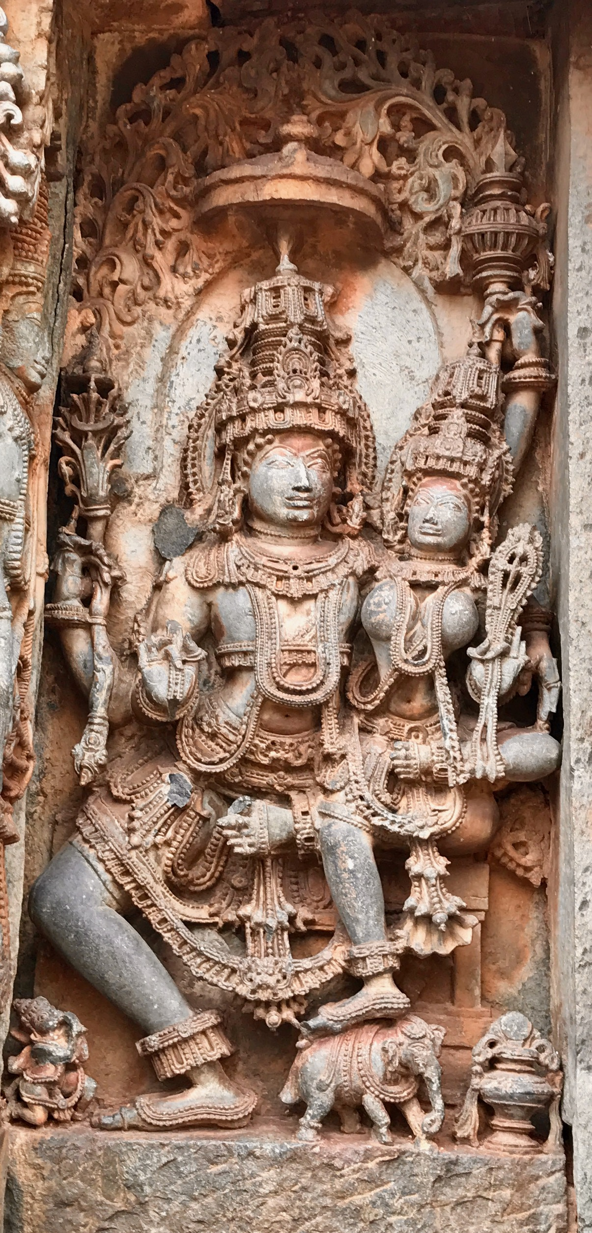 The Hoysaleswara Hindu temple is dedicated to Shiva. It was built in the first half of 12th century in Halebid (previously called Dwarasamudra, Hale bidu means "old capital"), sponsored by King Vishnuvardhana of the Hoysala Empire. During the early 14th century, Halebidu temple site along with others were sacked, looted and much artwork damaged (particularly nose/face, hands) by Muslim invaders from northern India (Khilji dynasty and Tughlaq dynasty of Delhi Sultanate). The temple belongs to the Shaivism tradition of Hinduism, yet reverentially presents its Vaishnavism and Shaktism tradition legends and ideas. The relief panels present legends from the Ramayana, the Mahabharata, the Puranas. Vedic deities such as Agni, Indra and Surya, various avatars of Vishnu, the Hindu goddesses such as Saraswati, Lakshmi avatars, Durga, Kali among others are presented. The carving is three dimensional where reliefs often emerge as statues with depth. Panels are continuous, with one perspective showing one part of the legend, a perpendicular perspective of the same column or wall or corner showing another part of the same legend. The carving material was soapstone.